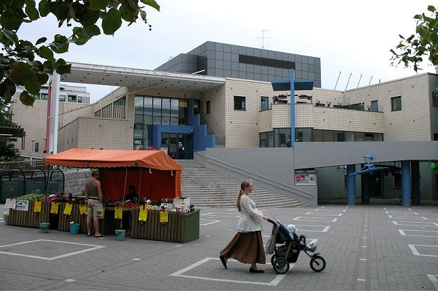 Kanneltalo, the regional culture center with library, situated in the Kannelmäki district of Helsinki, Finland.